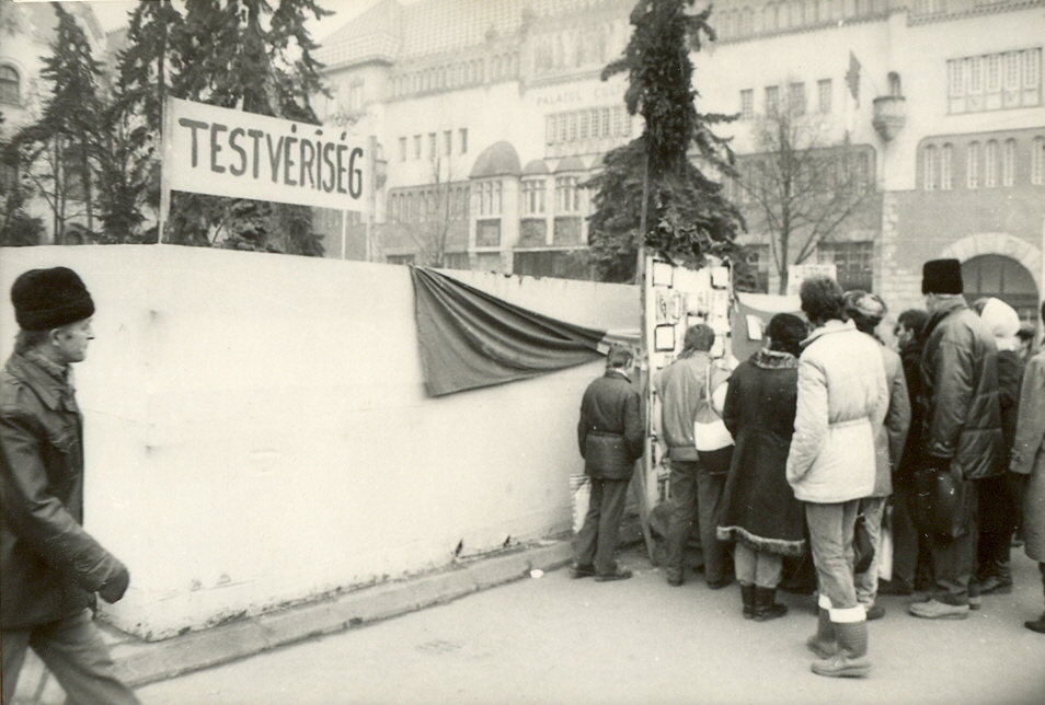 Revolution from 1989 in center of Târgu Mureş.